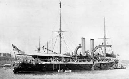 Ottoman gunboat Aydın Reis (1917)